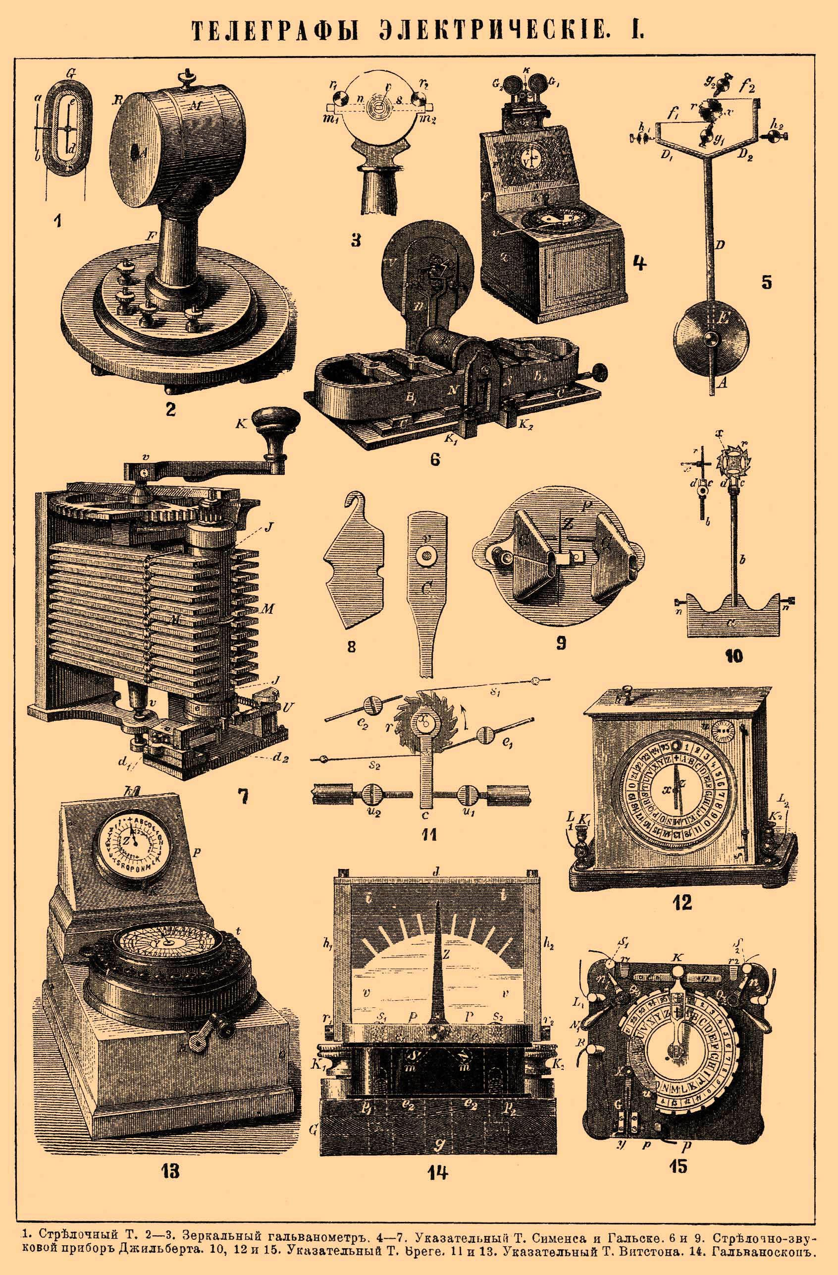 Illustration from Brockhaus and Efron Encyclopedic Dictionary(1890—1907)